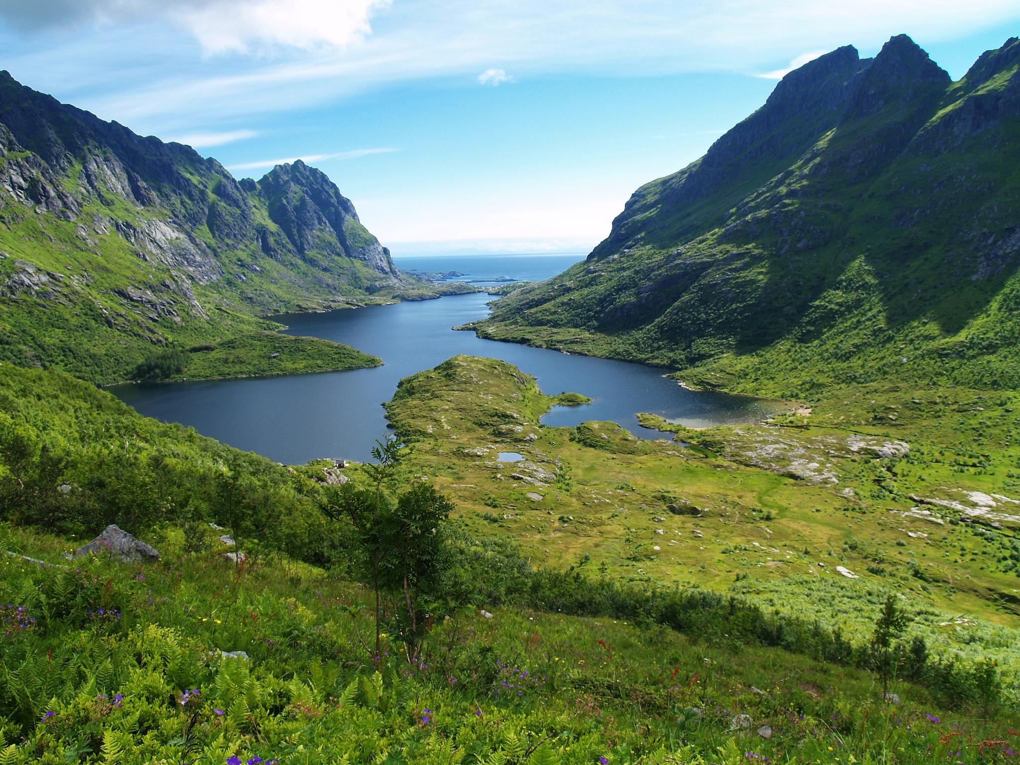 Lake Ågvatnet (4 metres above sea level) near the fishing village Å in Lofoten, Norway. View from Lofotodden National Park.